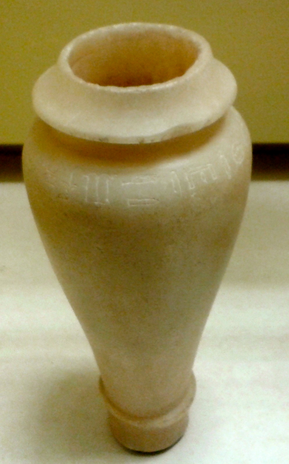 Alabaster vase bearing an inscription celebrating the first occasion of the Sed festival of Djedkare Isesi. Musee du Louvre E5323.